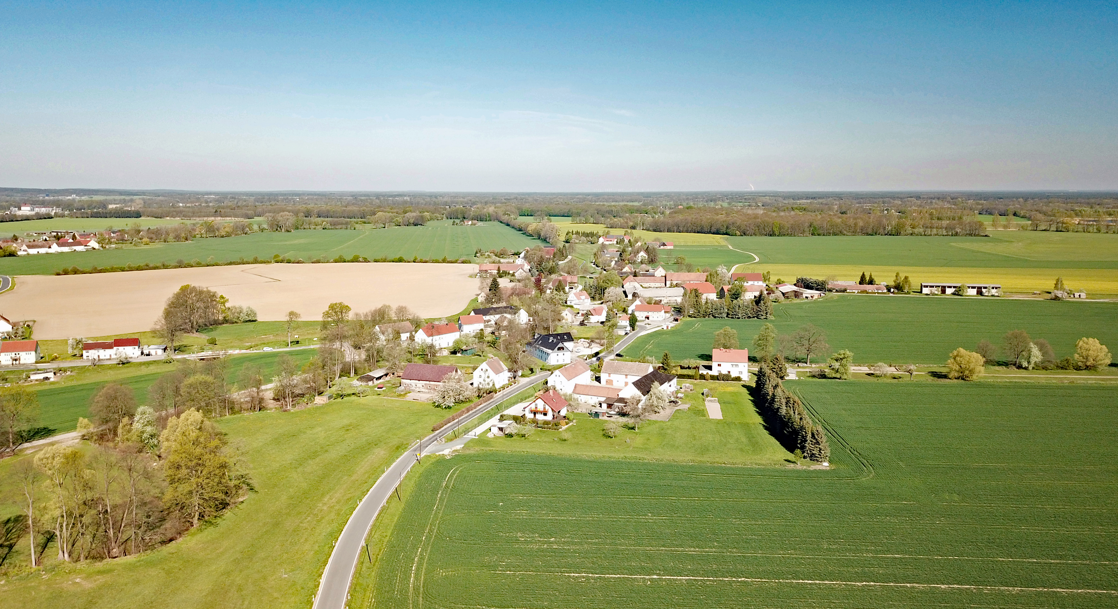 Buchwalde, Malschwitz, Saxony, Germany Hornjoserbsce: Powětrowy wobraz Bukojny pola Barta Dieses Foto wurde mit einem Quadcopter innerhalb der RMZ des Flugplatzes EDAB aufgenommen. Der Flugleiter wurde am Aufnahmetag telephonisch über Ort und Zeit informiert und hat zugestimmt. Der Flug erfolgte auf Grundlage der Allgemeinverfügung der Landesdirektion Sachsen zur Erteilung der Betriebserlaubnis für unbemannte Luftfahrtsysteme und Flugmodelle gemäß § 21a LuftVO und Zulassung von Ausnahmen von Betriebsverboten gemäß § 21b LuftVO für den Freistaat Sachsen.